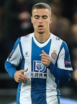 Adrià Pedrosa with RCD Espanyol in an Europa League game against PFC CSKA Moscow.